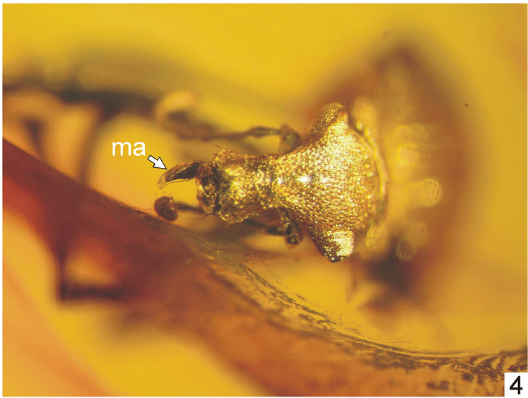 Arostropsis groehni gen. et sp.n. 4 head, dorsal view. Abbreviation: ma – mandibular process. Body length: 6.4 mm.